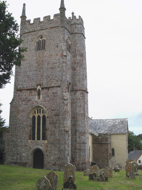 St Mary's parish church, Town Barton, Tedburn St Mary, seen from the west